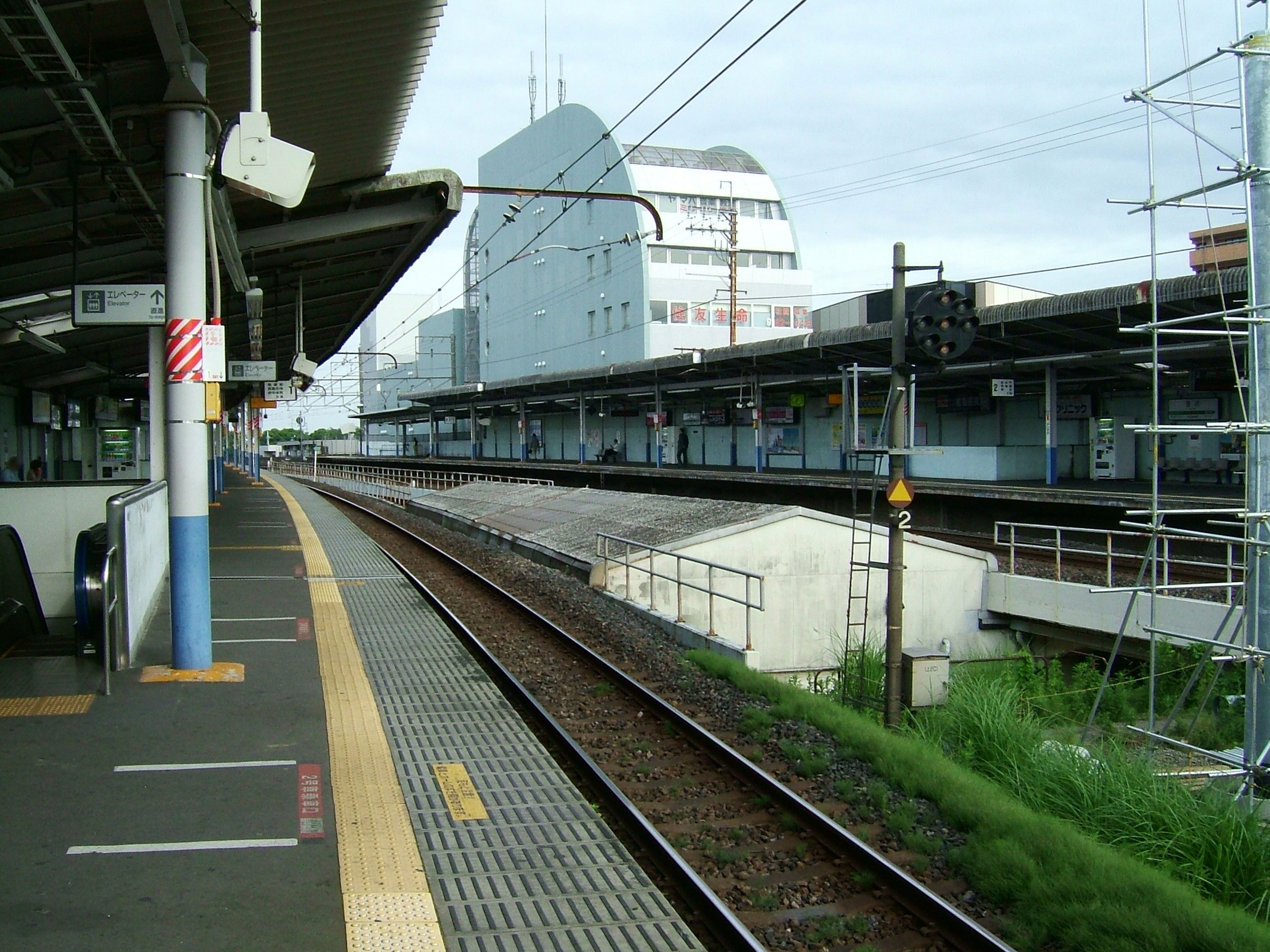 The platforms of Yoshikawa Station(East Japan Railway Musashino Line)